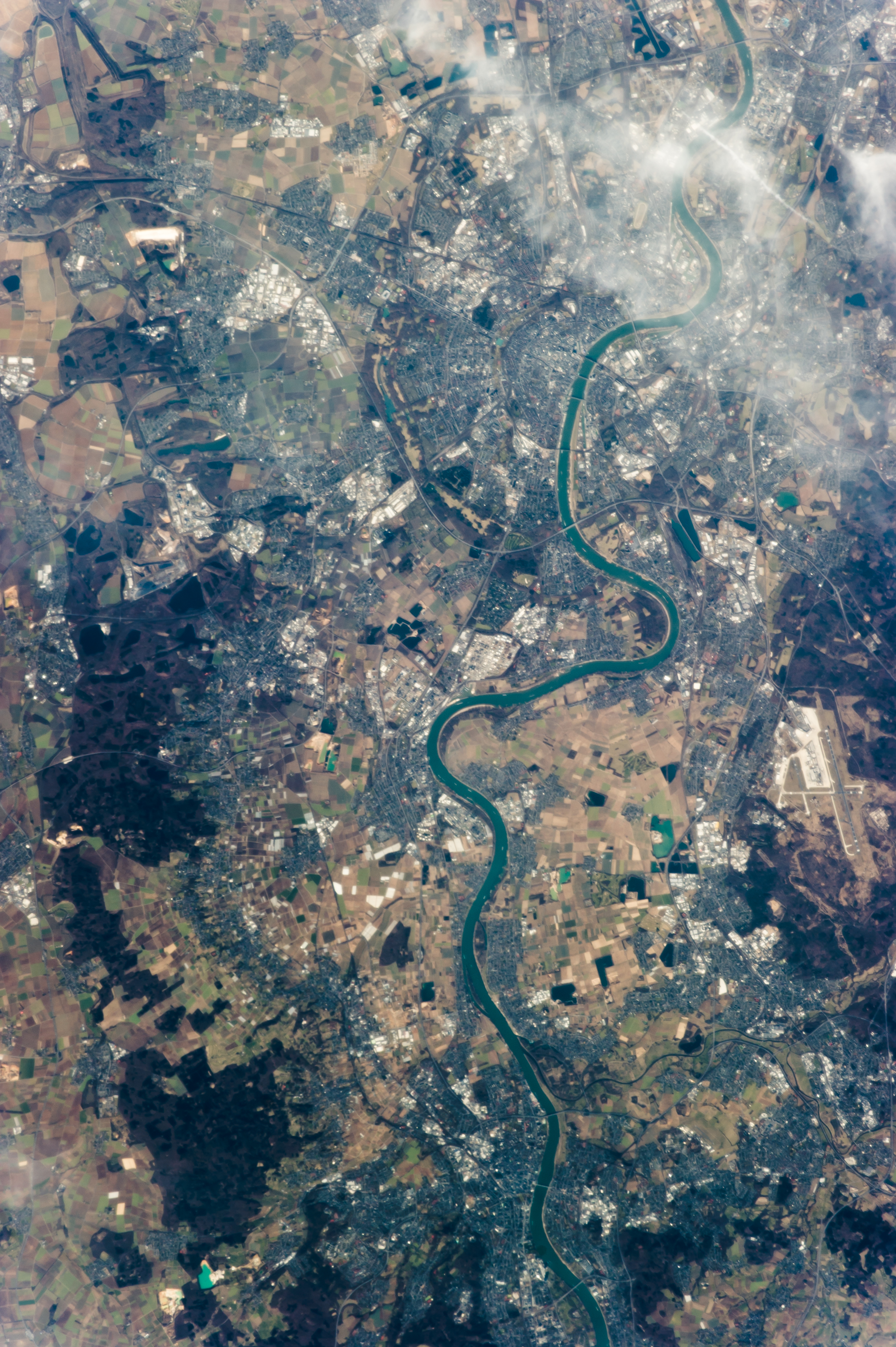 "Tonight's Finale: Germany, the Rhine from Bonn to Koln, spanning from the Cathedral to the European Astronaut Centre. " Caption by astronaut Chris Hadfield Chris Hadfield on board the International Space Station. The Cologne metropolitan area takes up much of the left half of the picture; Bonn is on the picture's right edge. ISS Crew Earth Observations: ISS034-E-062871IdentificationMissionISS034 (Expedition 34)RollEFrame062871Country or Geographic NameGERMANYCameraCamera Focal Length400 mmCameraNIKON D3SQualityPercentage of Cloud Cover0-10%Nadir What is Nadir?Date2013-03-06Time11:08:42